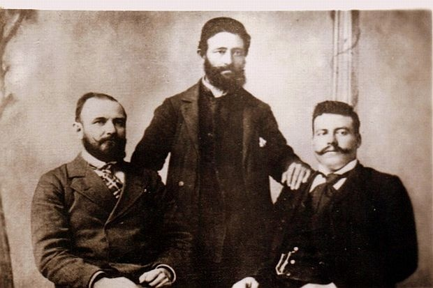 Georche Petrov, Nikola Maleshevski and Gotse Delchev - IMARO activists